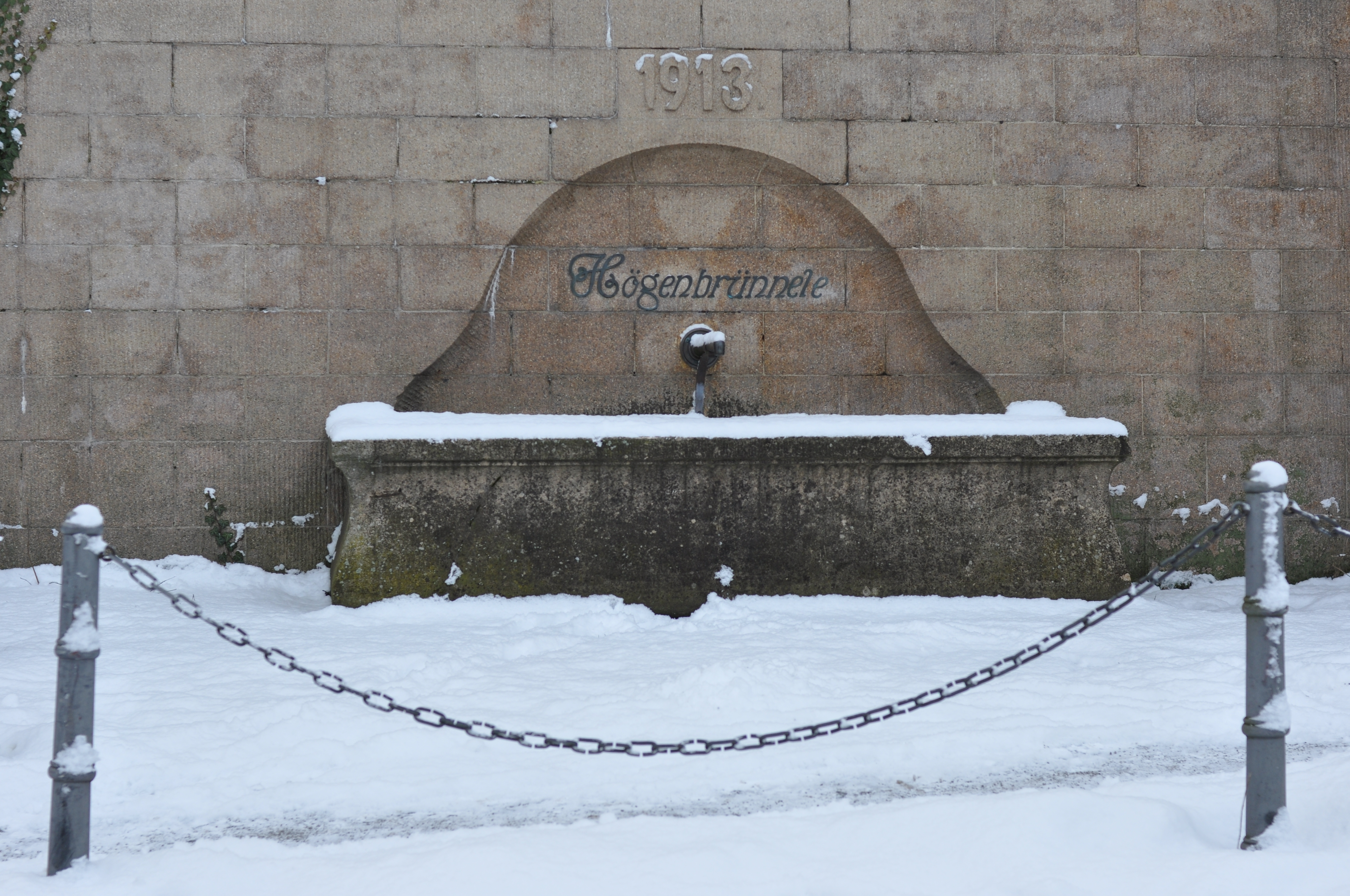 Stuttgart-Feuerbach, the Högenbrünnele